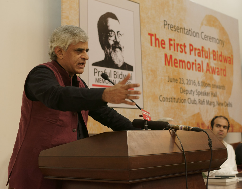 PARI gets first Praful Bidwai Memorial Award